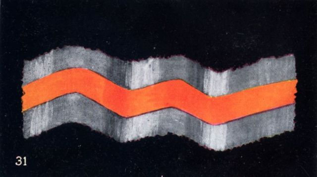 A thought form from Thought-Forms, by Annie Besant & C.W. Leadbeater.